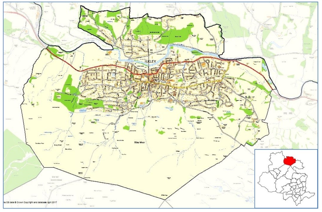 Ilkley Ward 2019 Ordnance Survey data © Crown copyright